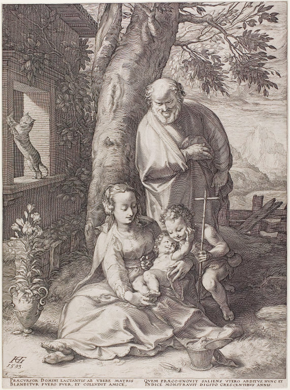 Adoration of the Magi, from the series The Life of the Virgin.